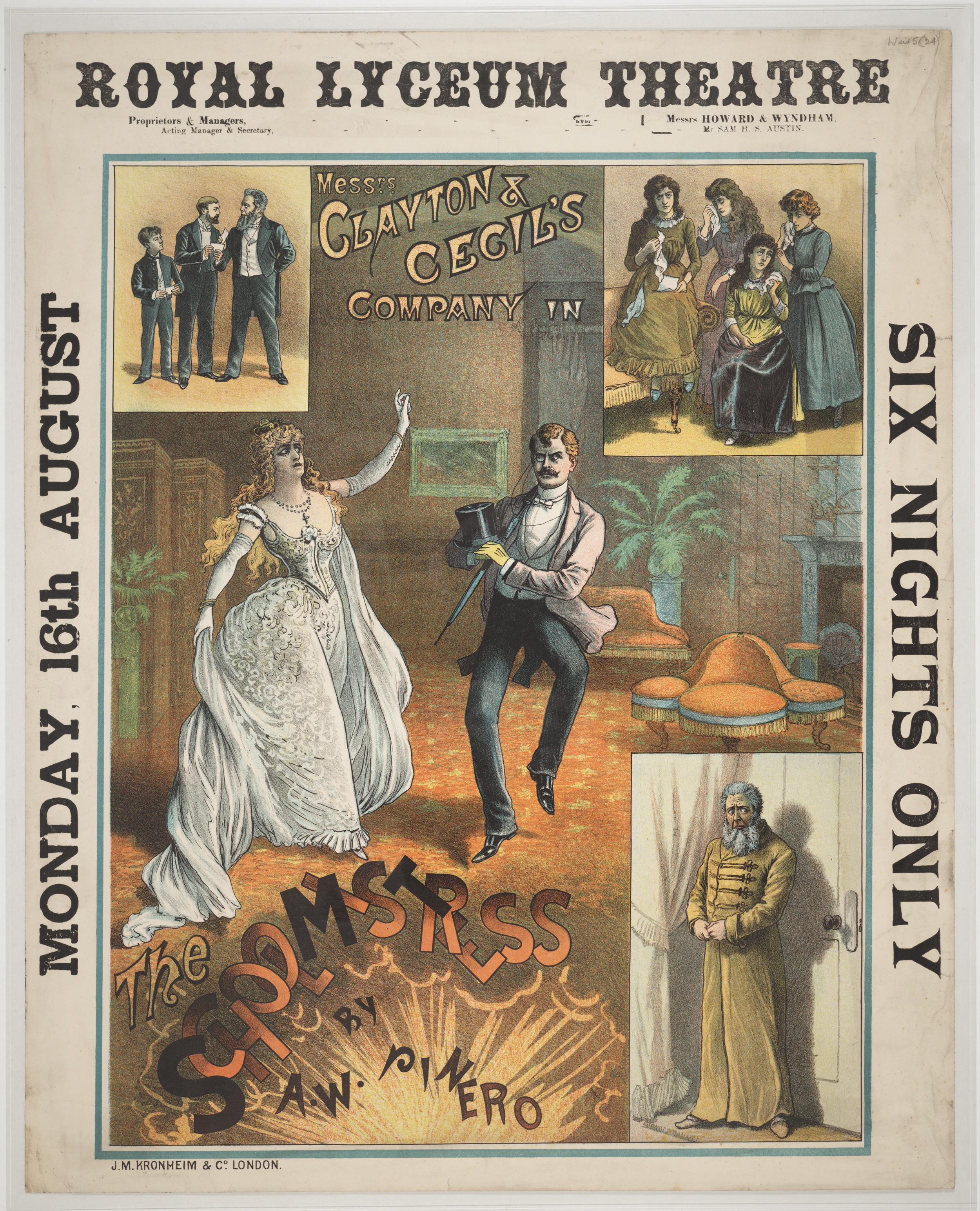 Monday, 16th August, six nights only. Messrs Clayton & Cecil's Company in 'The Schoolmistress' by A. W.Pinero. Printed by J. M. Kronheim & Co., London. Proprietors & Managers: Messrs Howard & Wyndham, Acting Manager & Secretary: Mr Sam H. S. Austin.